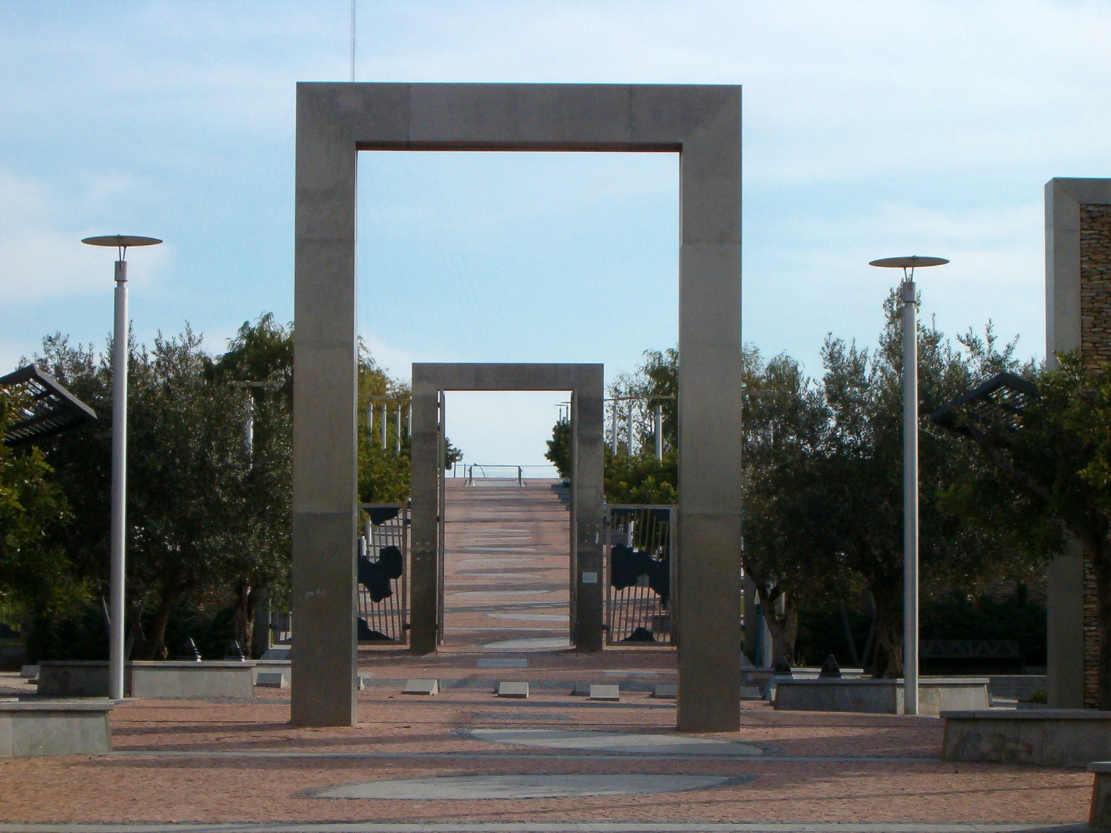 Oeiras_Parque_Poetas